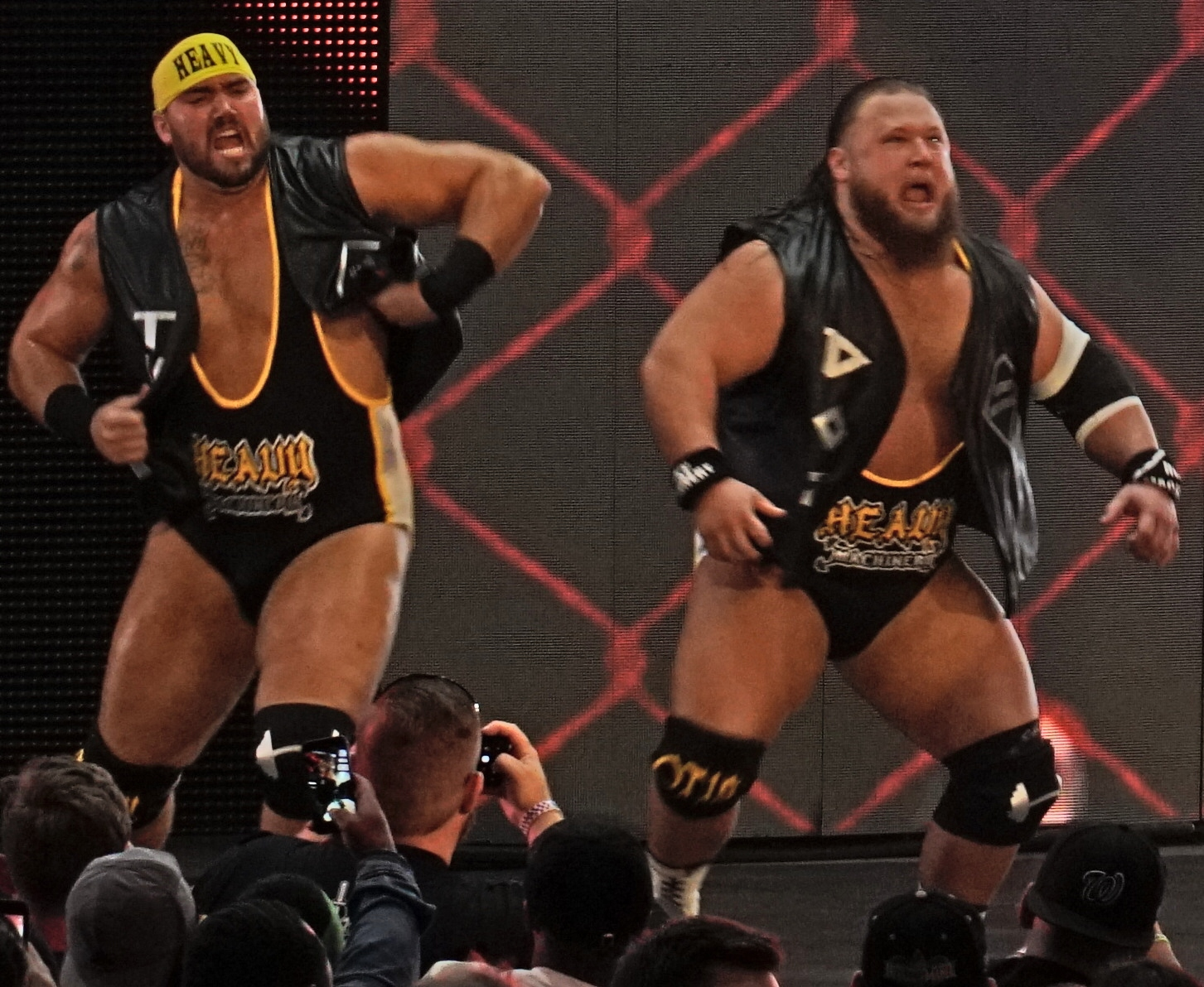 Otis Dozovic (right) and Tucker Knight (left) at NXT TakeOver: New Orleans in April 2018.